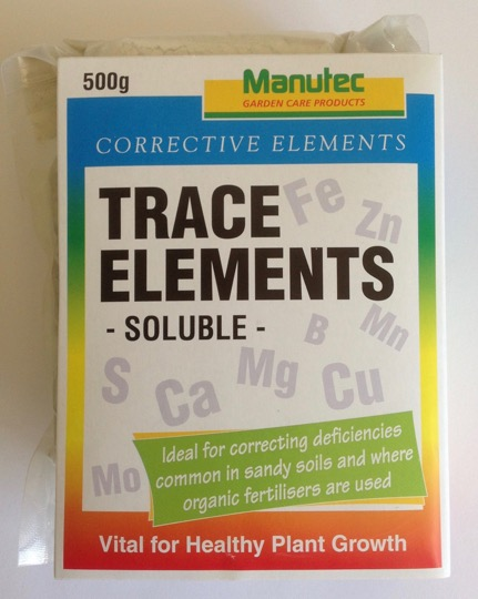 A 500 gram bag of garden fertilizer containing elements in the following proportions, by weight %: boron 0.09; sulfur 6.29; magnesium 3.62; calcium 10.0; manganese 2.88; iron 2.73; copper 1.25; zinc 1.0; molybdenum 0.0038